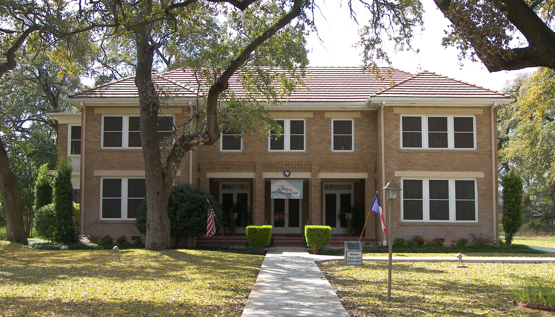 The John Nance Garner House Uvalde, Texas, United States. The structure was designated a Recorded Texas Historic Landmark in 1962 and listed on the National Register of Historic Places on December 8, 1976. It is now a division of The Center for American History, The University of Texas at Austin.